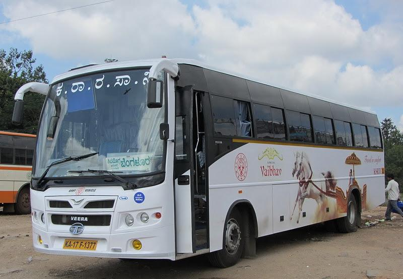 KSRTC Ambari Corona